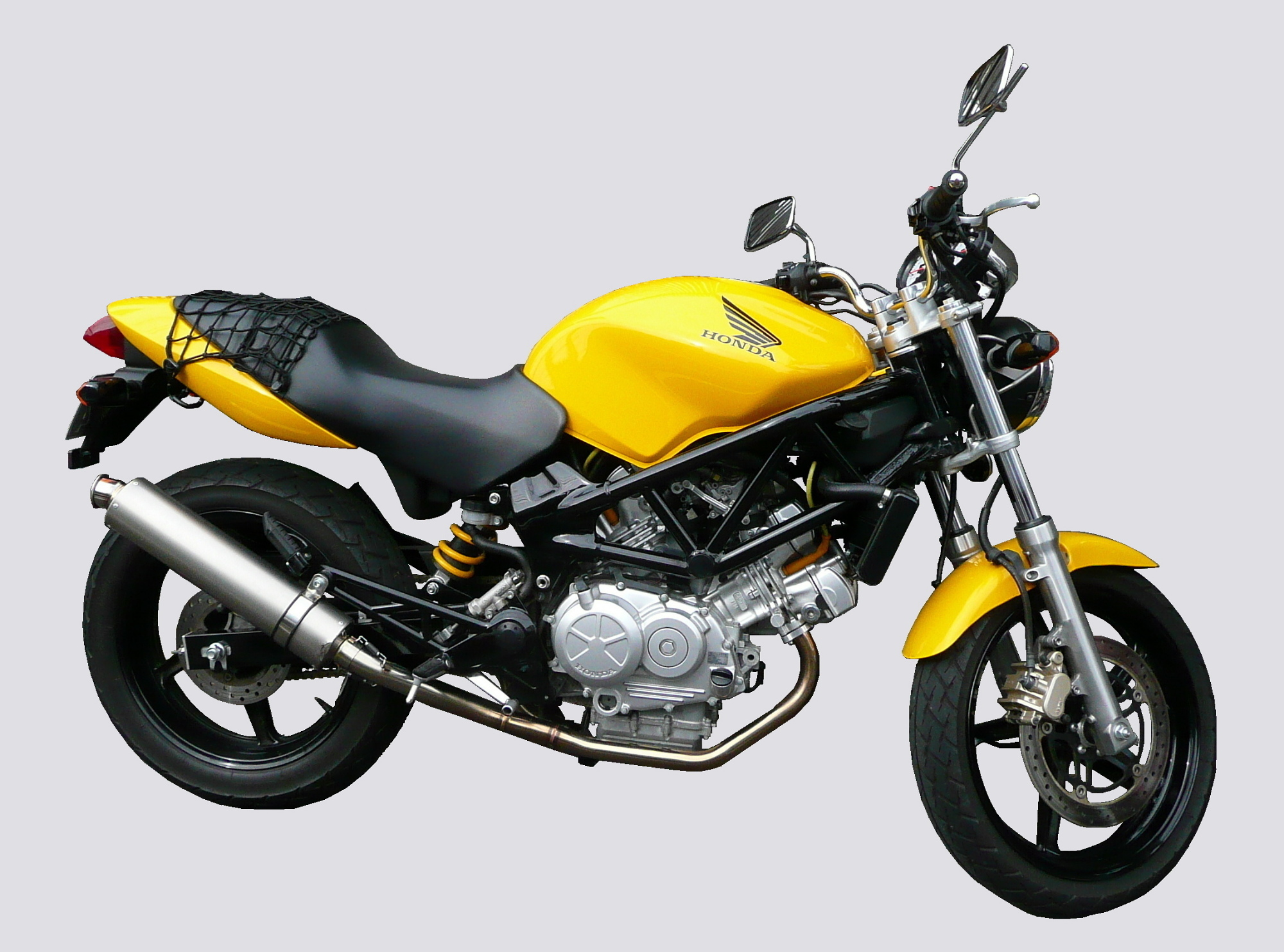 HONDA VTR250 2003 Pearl Shining Yellow